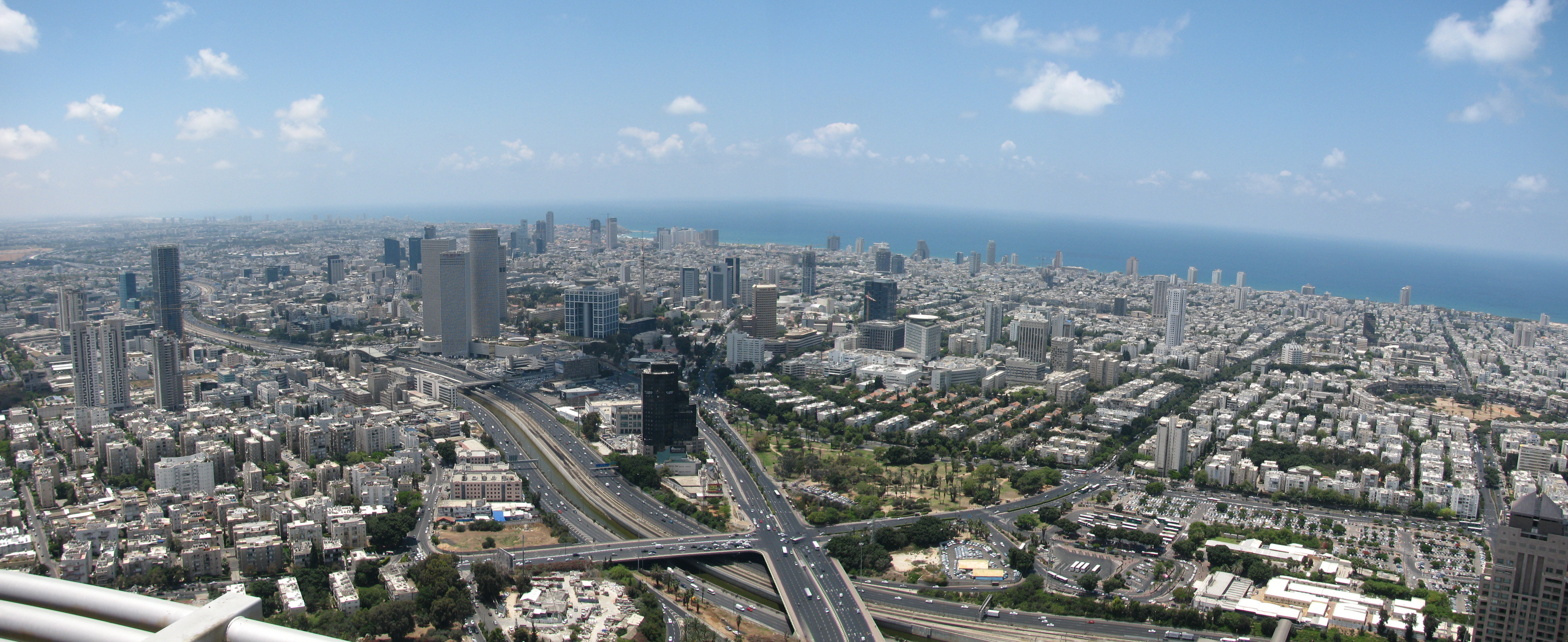 Tel Aviv from Moshe Aviv Tower